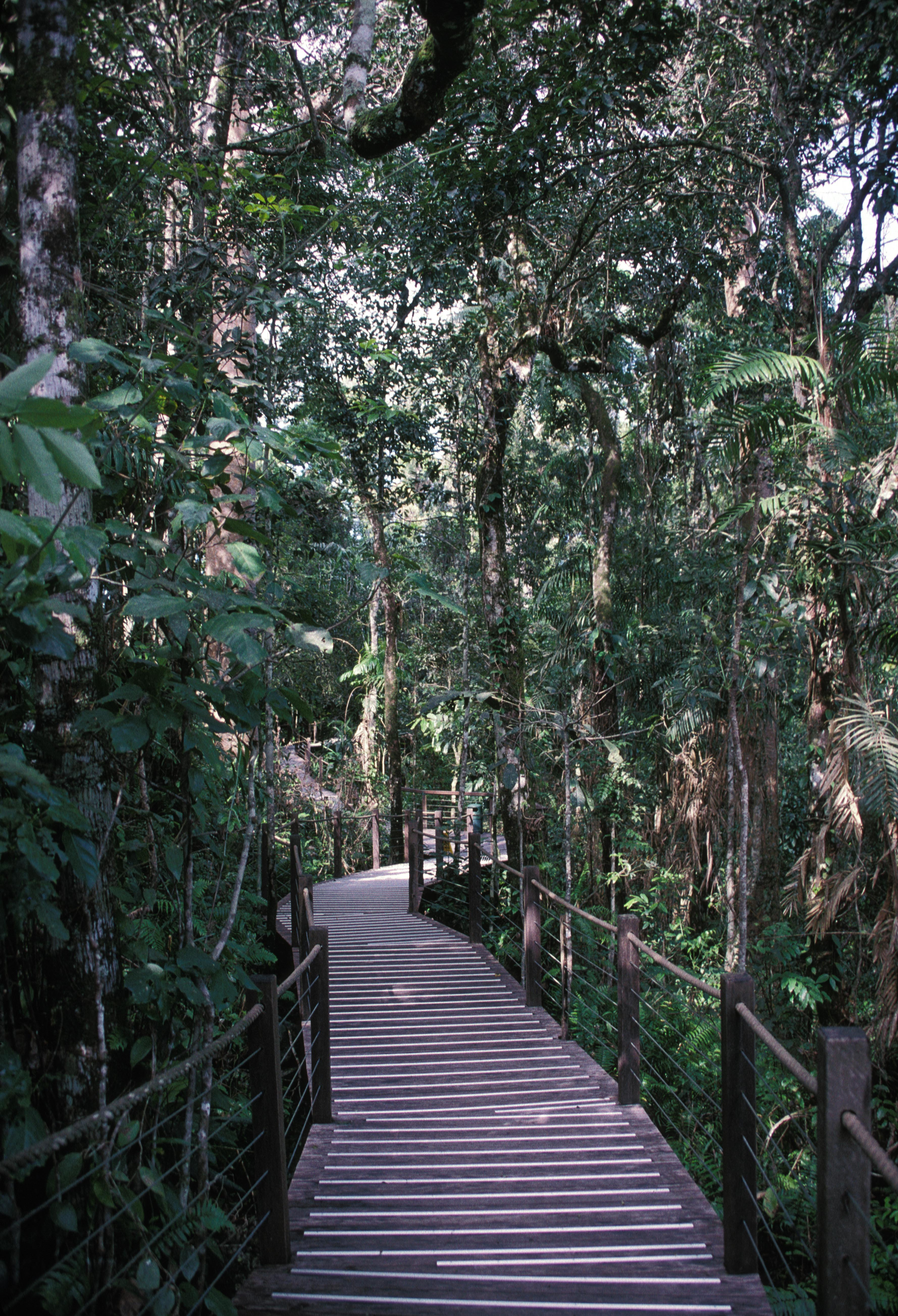 BOADWALK GOES THROUGH THE RAIN FOREST WHICH HAS TALL EUCALYPTUS TREES, KAURI TREES AND MANY TYPES OF LUSH FERNS. LOCATED AT KURANDA IN QUEENSLAND, AUSTRALIA. On the "SKYRAIL RAINFOREST CABLEWAY"